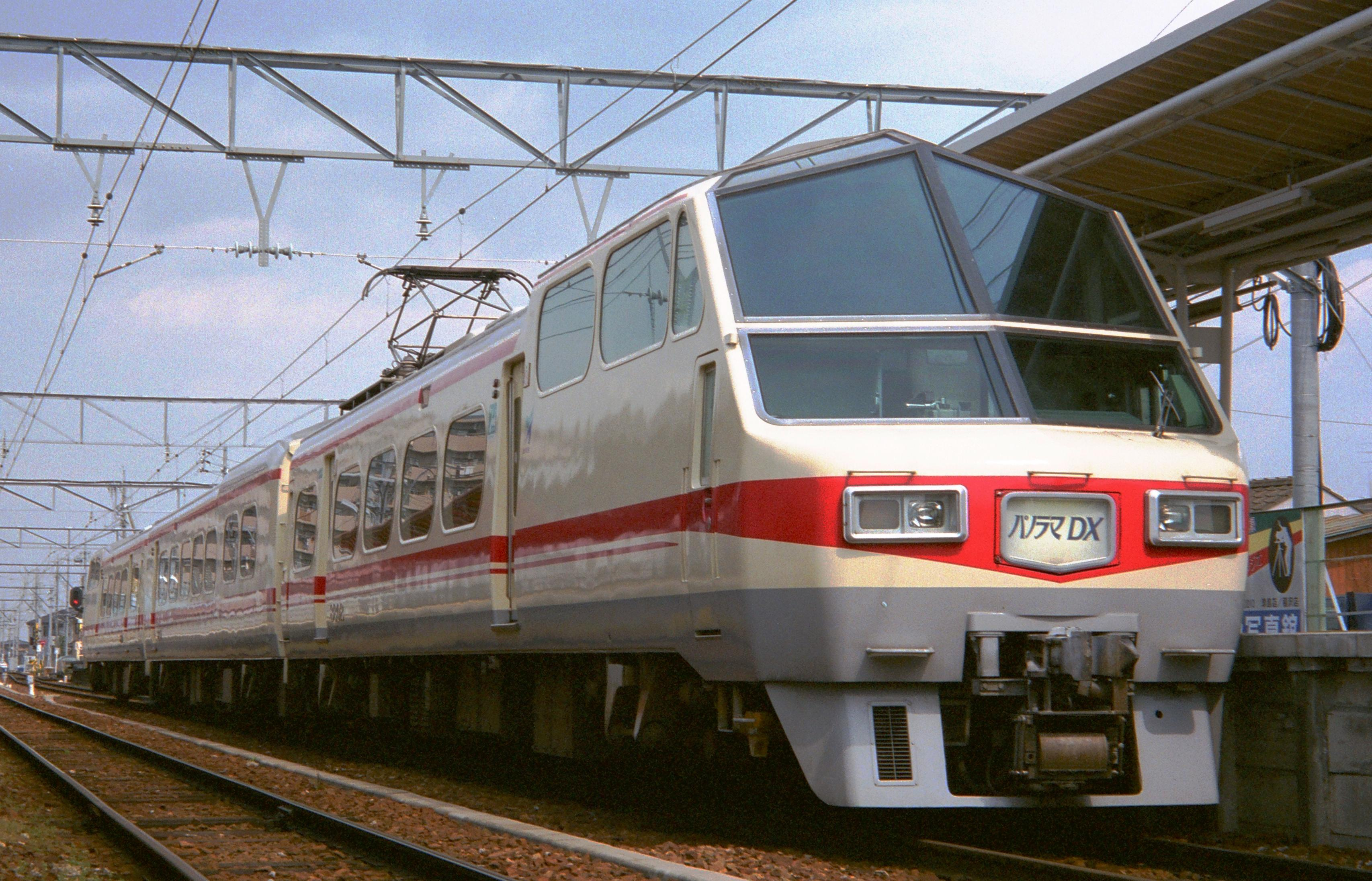 Nagoya Railroad Type 8800 Special express train(Japan). Taking a picture from Saya-Station platform in Tushima-line. 名鉄8800系電車の特急電車。 名鉄尾西線の佐屋駅にて、ホームより撮影。